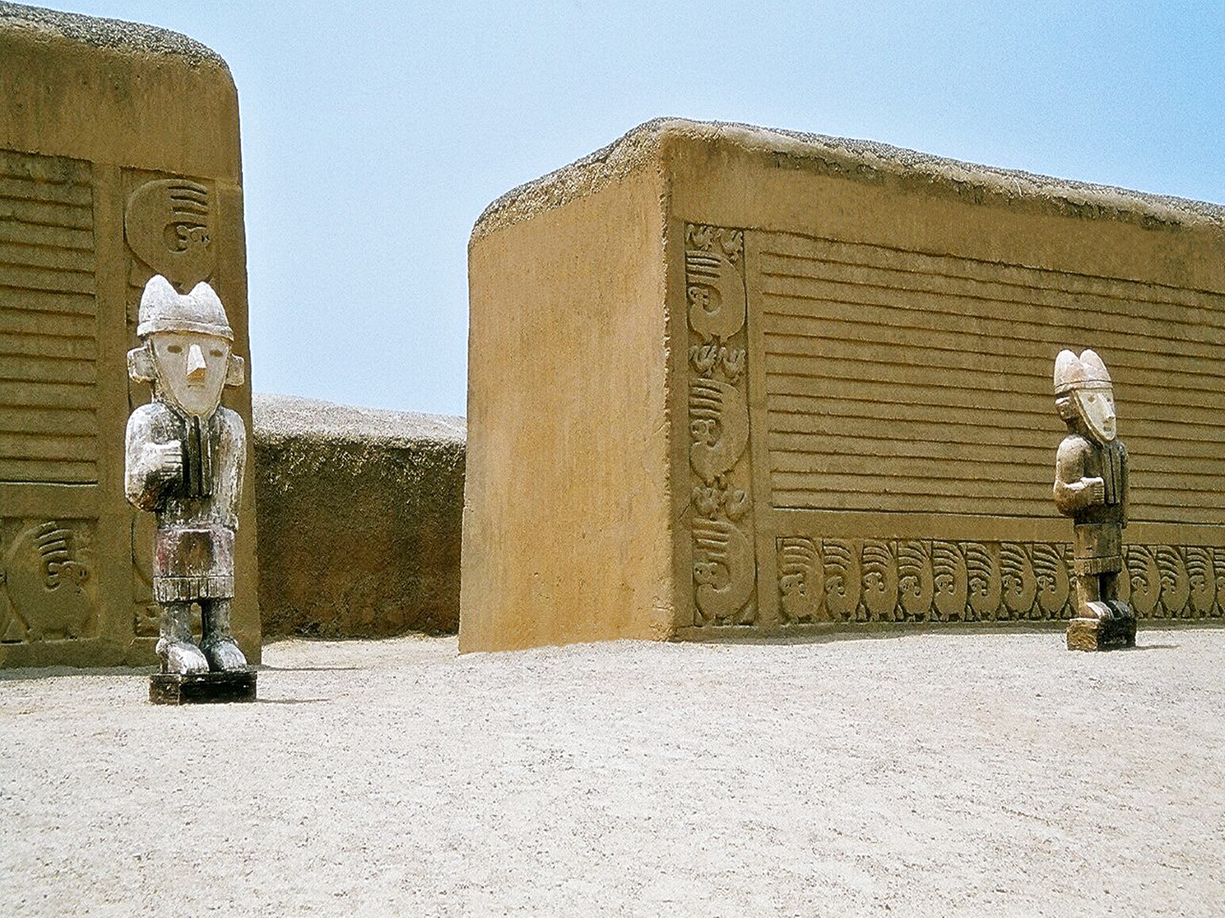 Guards in Chan Chan, Peru